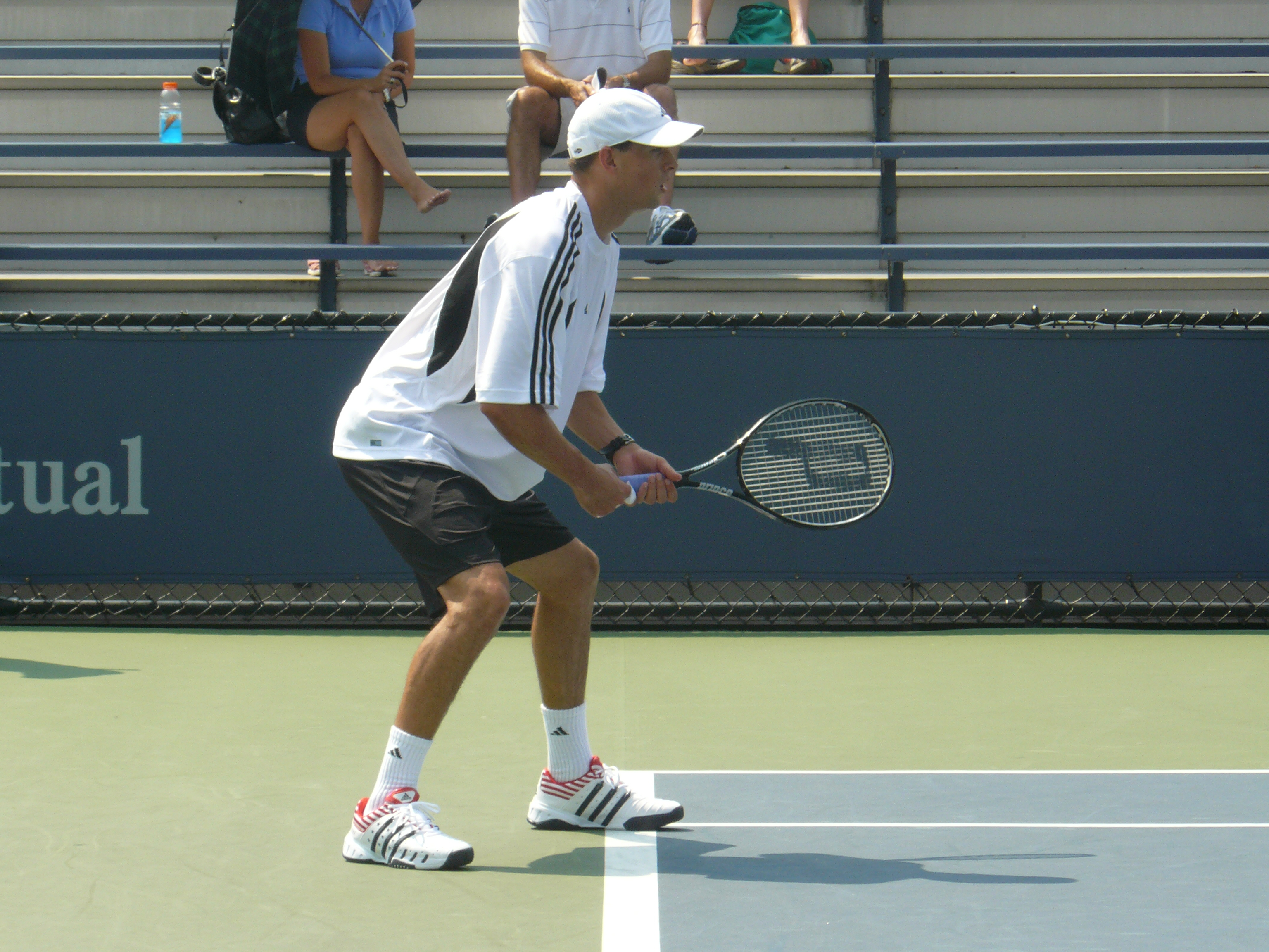 Taken personally at the 2007 US Open.